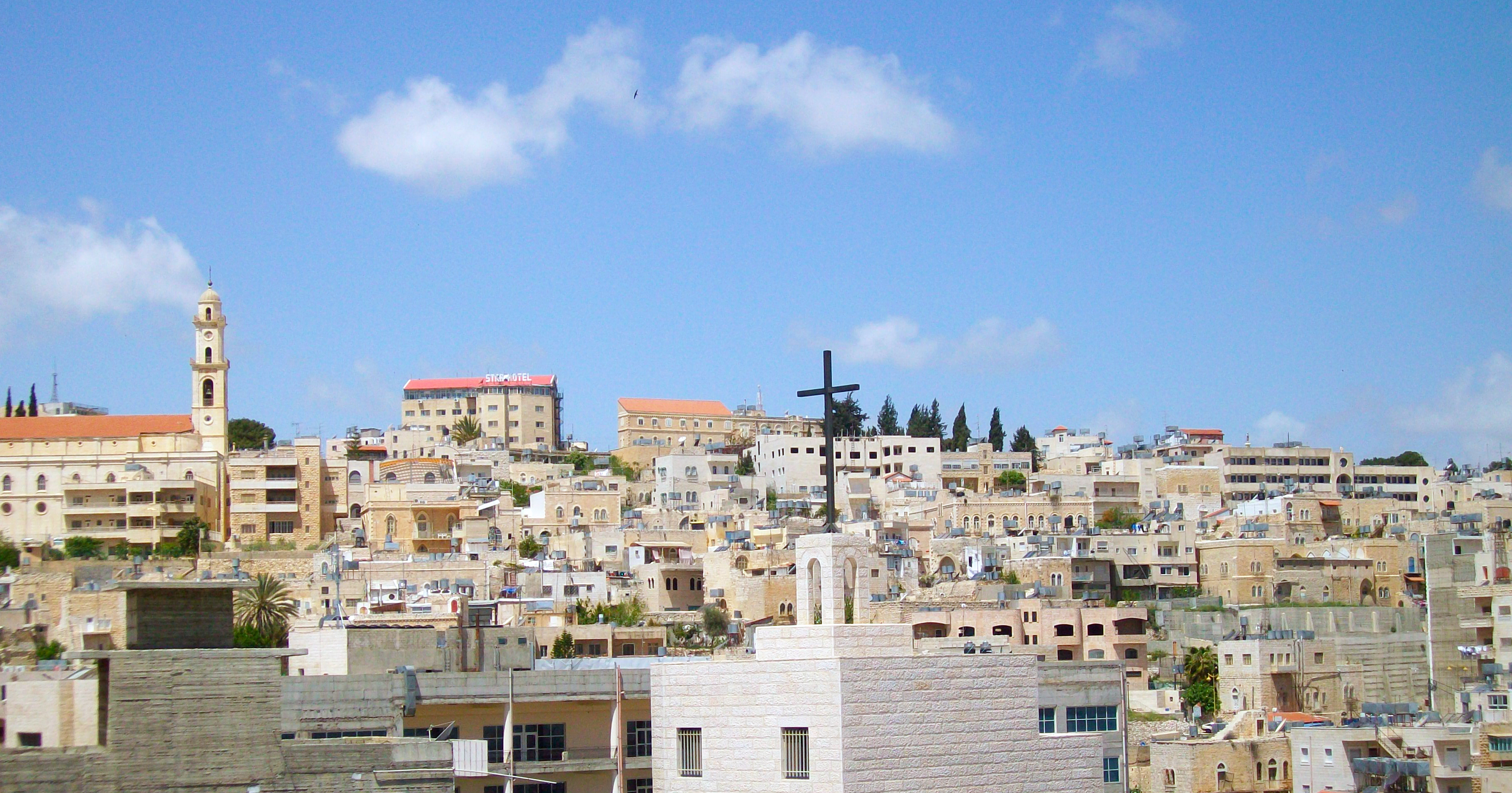 Skyline (of sorts), of the original Bethlehem on the West Bank, seen from near Church of the Nativity (Bethlehem)